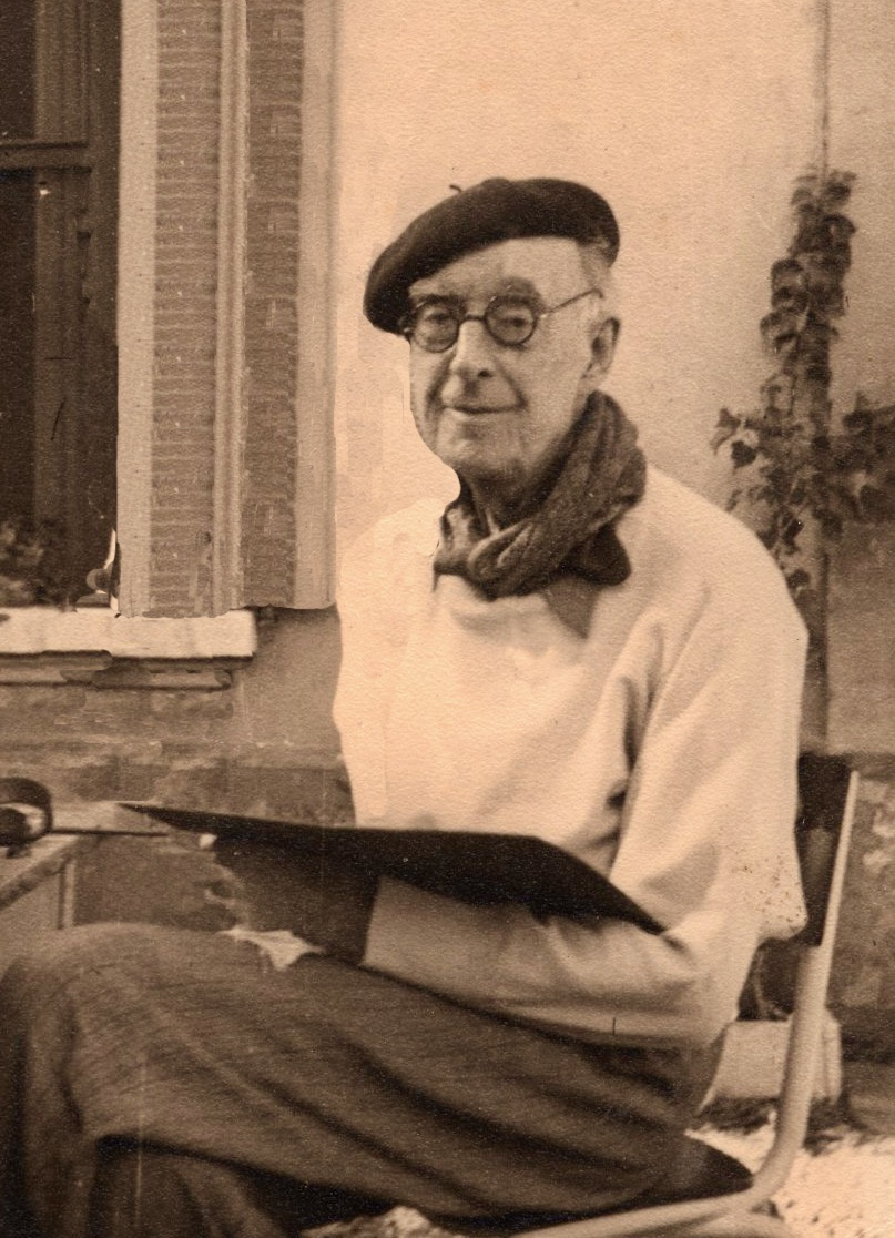 Photo of the artist Henri Vincent-Anglade by permission of Chrystel Vincent Anglade.